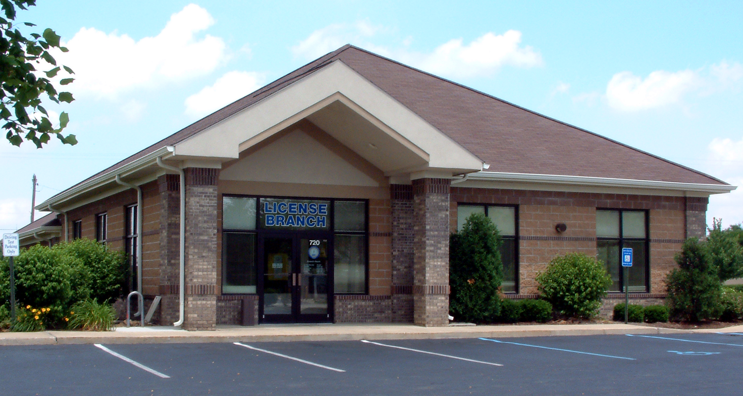 The West Lafayette License Branch of the Indiana Bureau of Motor Vehicles, located at 720 Navajo Street in West Lafayette, Indiana.